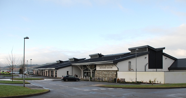 Mid Argyll Community Hospital and Integrated Care Centre This building houses the new community hospital, GP surgery and social work offices for the Mid Argyll area.